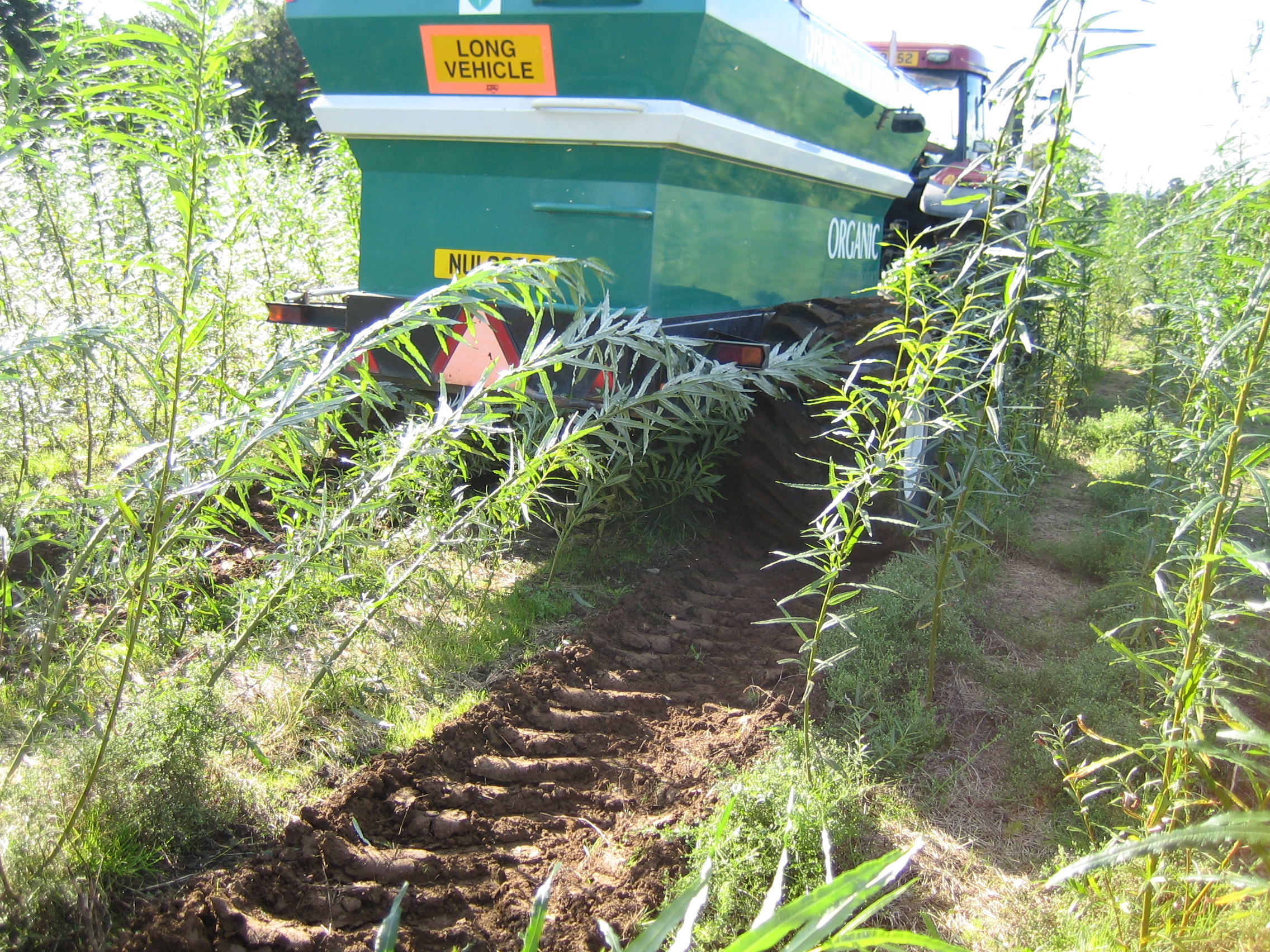 Photo by: TTZ Short-Rotation-Plantations (SRP) are a new approach for the cultivation of energy crops and reusing domestic wastewater. Energy crops are irrigated and fertilised with domestic wastewater in order to benefit from the nutrients contained in the wastewater and to enhance biomass growth. The name SRP refers to plant species which are harvested after short periods (usually between 2-8 years). Their cultivation intensity, their high nutrient uptake and the frequent harvest require irrigation and fertilisation. For further information visit the website of TTZ, Germany